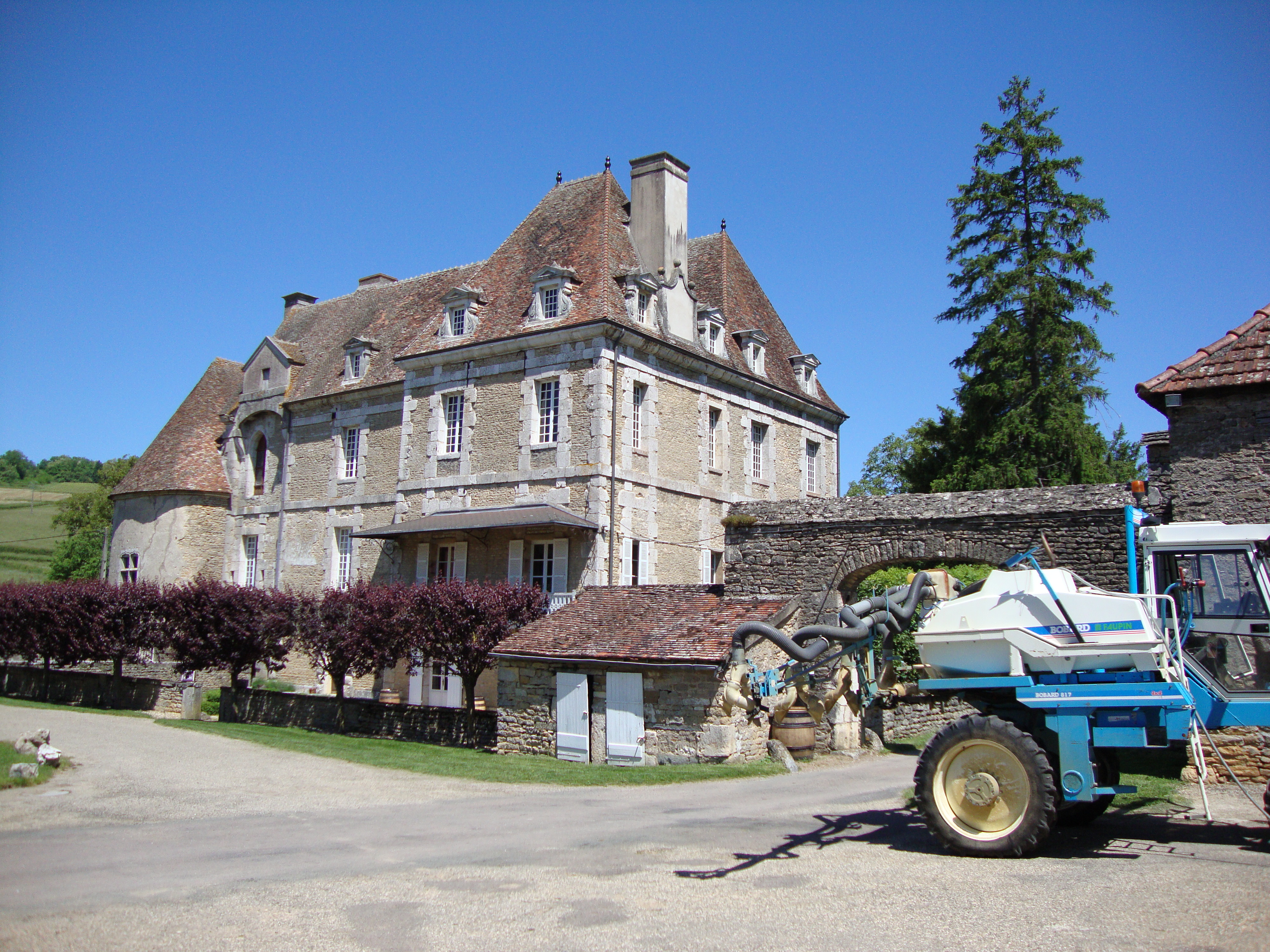 Chamilly (Saône-et-Loire, Fr) château.